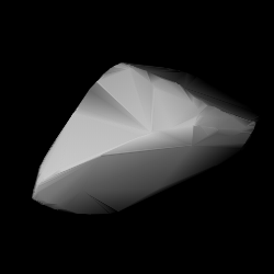 3D convex shape model of 1182 Ilona, computed using light curve inversion techniques. J. Hanuš, J. Ďurech, M. Brož, B. D. Warner (June 2011). "A study of asteroid pole-latitude distribution based on an extended set of shape models derived by the lightcurve inversion method". Astronomy and Astrophysics 530: A134. ISSN 0004-6361. arXiv